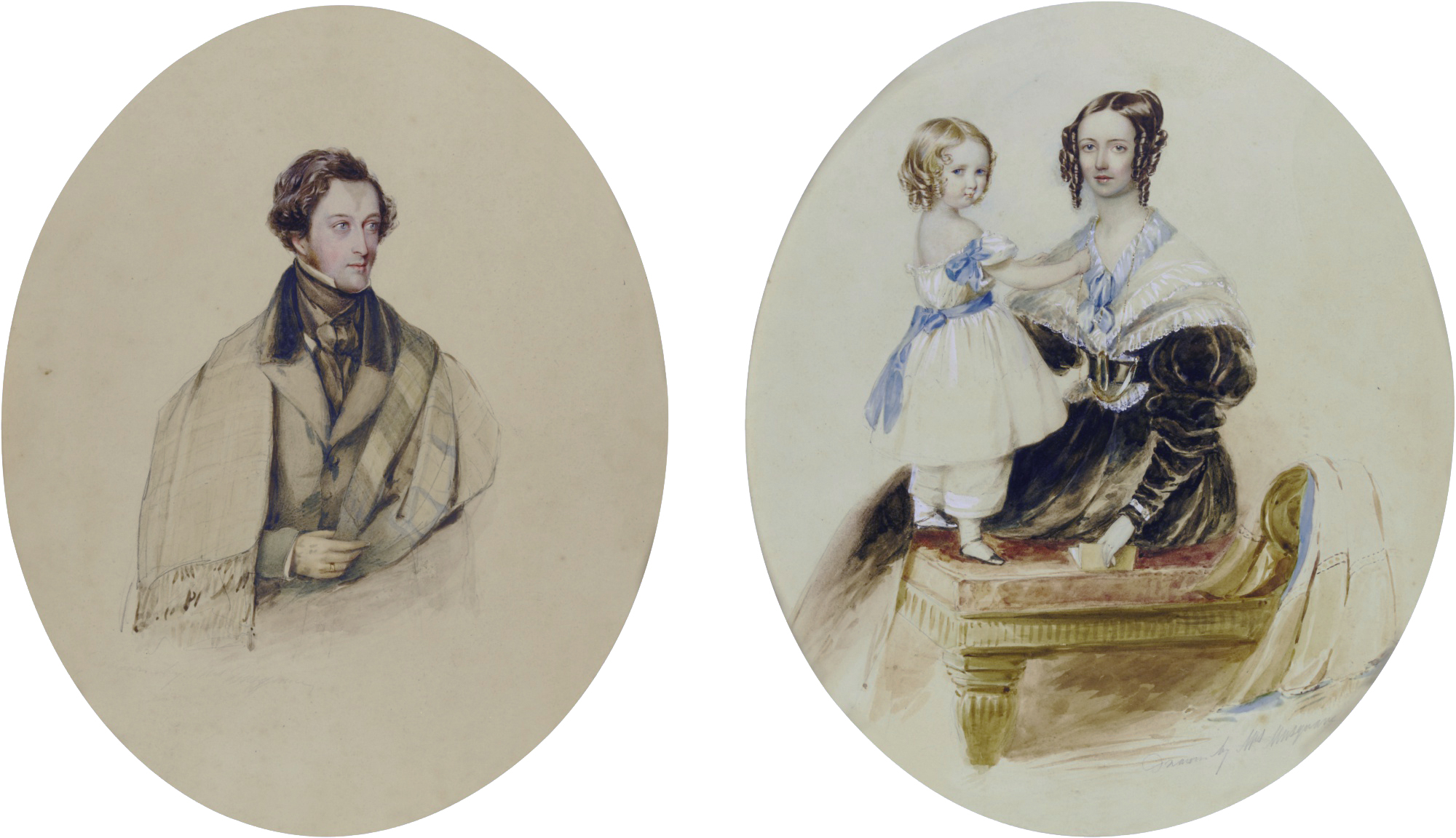 John Stuart Hepburn-Forbes, 8th Bt. (1804-1866) and his wife and daughter watercolour over pencil, heightened with bodycolour and gum arabic 330 by 280 mm inscribed: Drawn by Mrs Musgrave